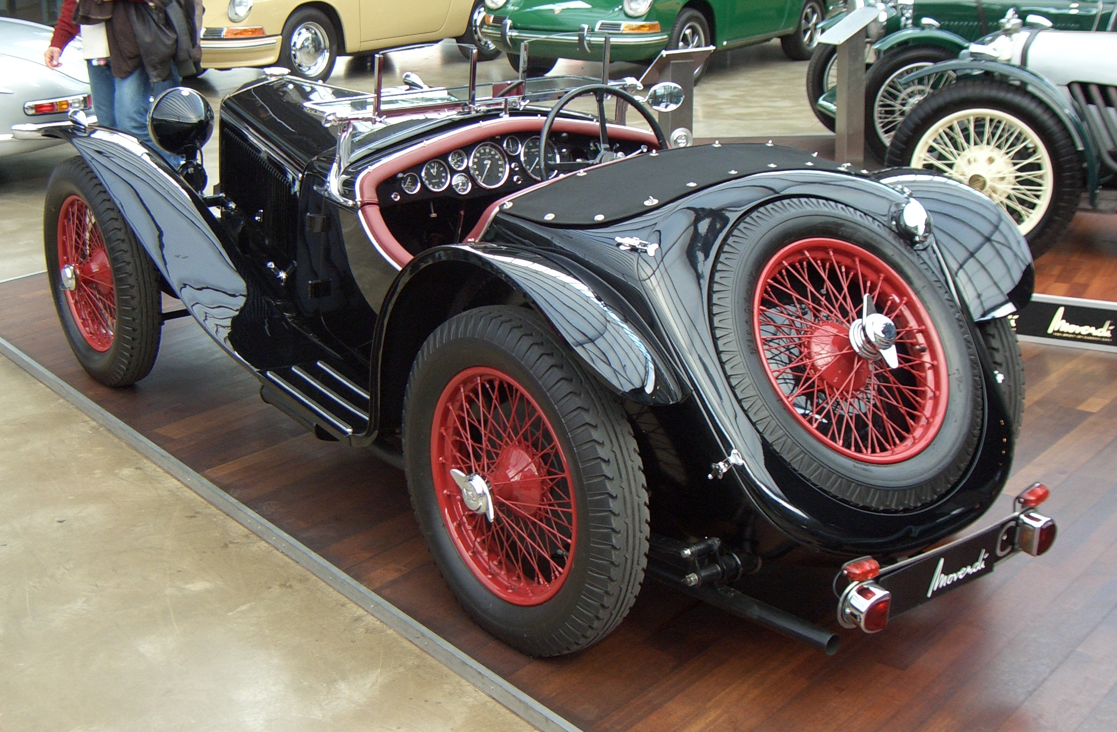 Riley IMP, 1934-1935, seen at CLASSIC REMISE, Duesseldorf, Germany